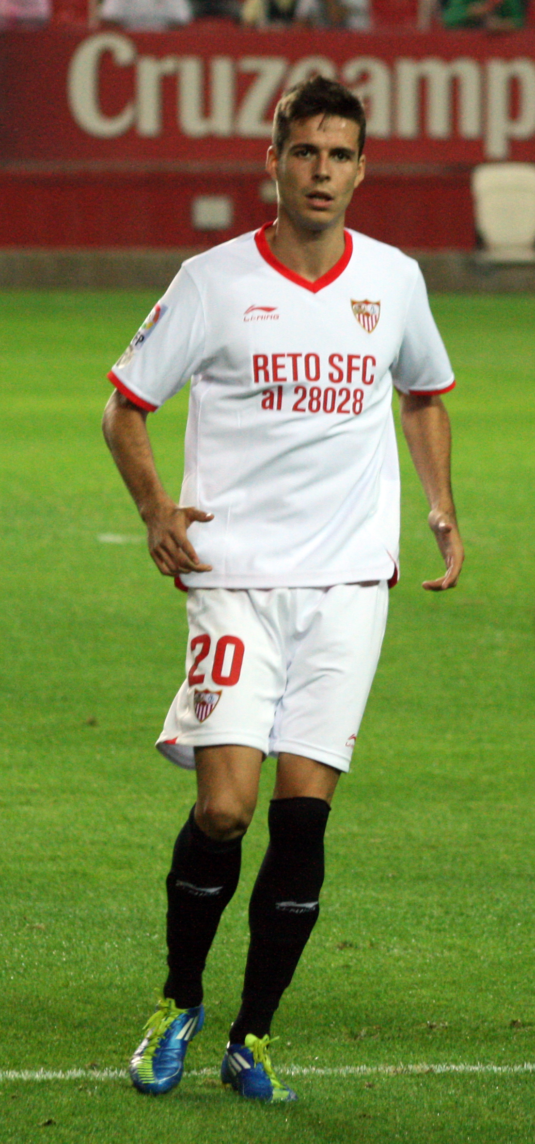 Manu del Moral, Spanhis footballer who plays for Sevilla Fútbol Club